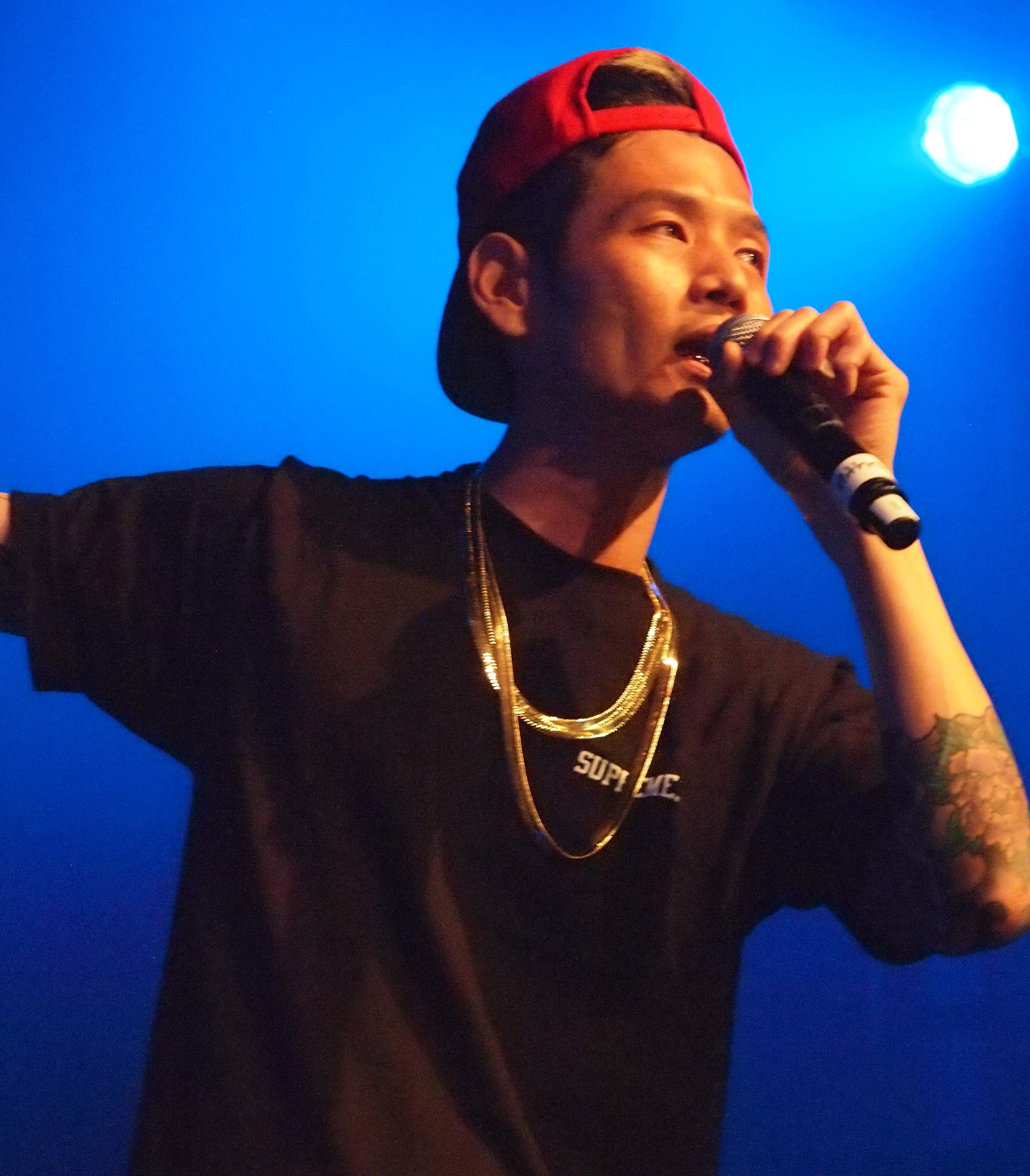 OLYMPUS DIGITAL CAMERA Epik High, Master Wu & DJ Soulscape at Best Buy Theater, New York City - 6/12/2015